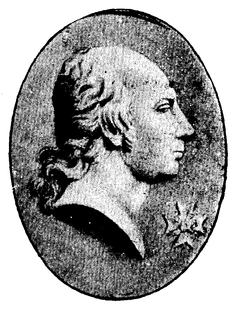 Olof Rudolf Cederström (1764-1833), Swedish admiral